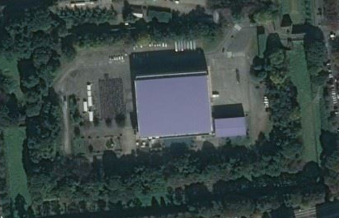 Satellite view, Dolphins Arena